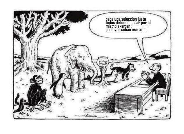 Education